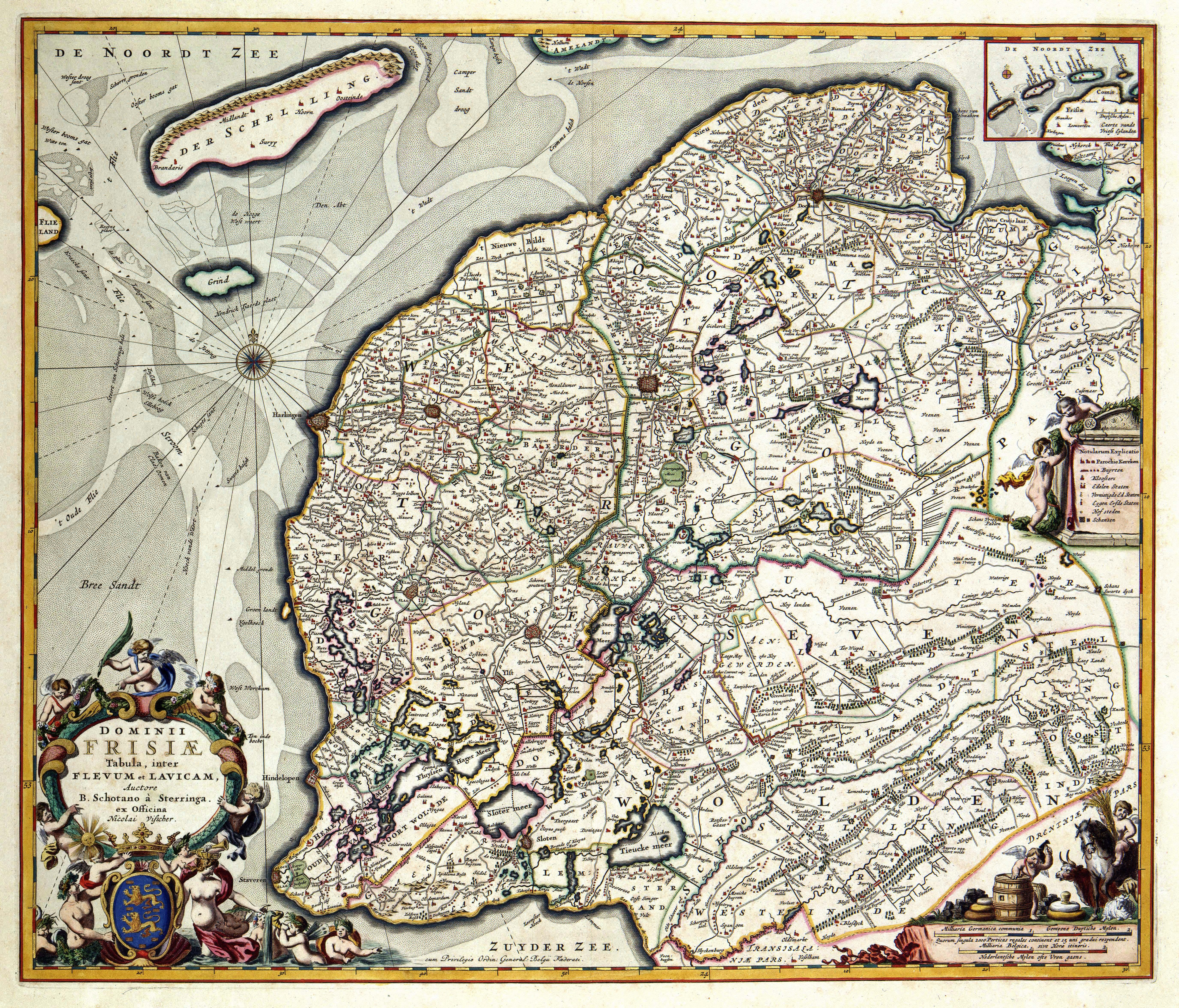 DOMINII FRISIAE TABULA, inter FLEVUM et LAVICAM, Auctore B. Schotano à Sterringa, ex Officiana Nicolai Visscher